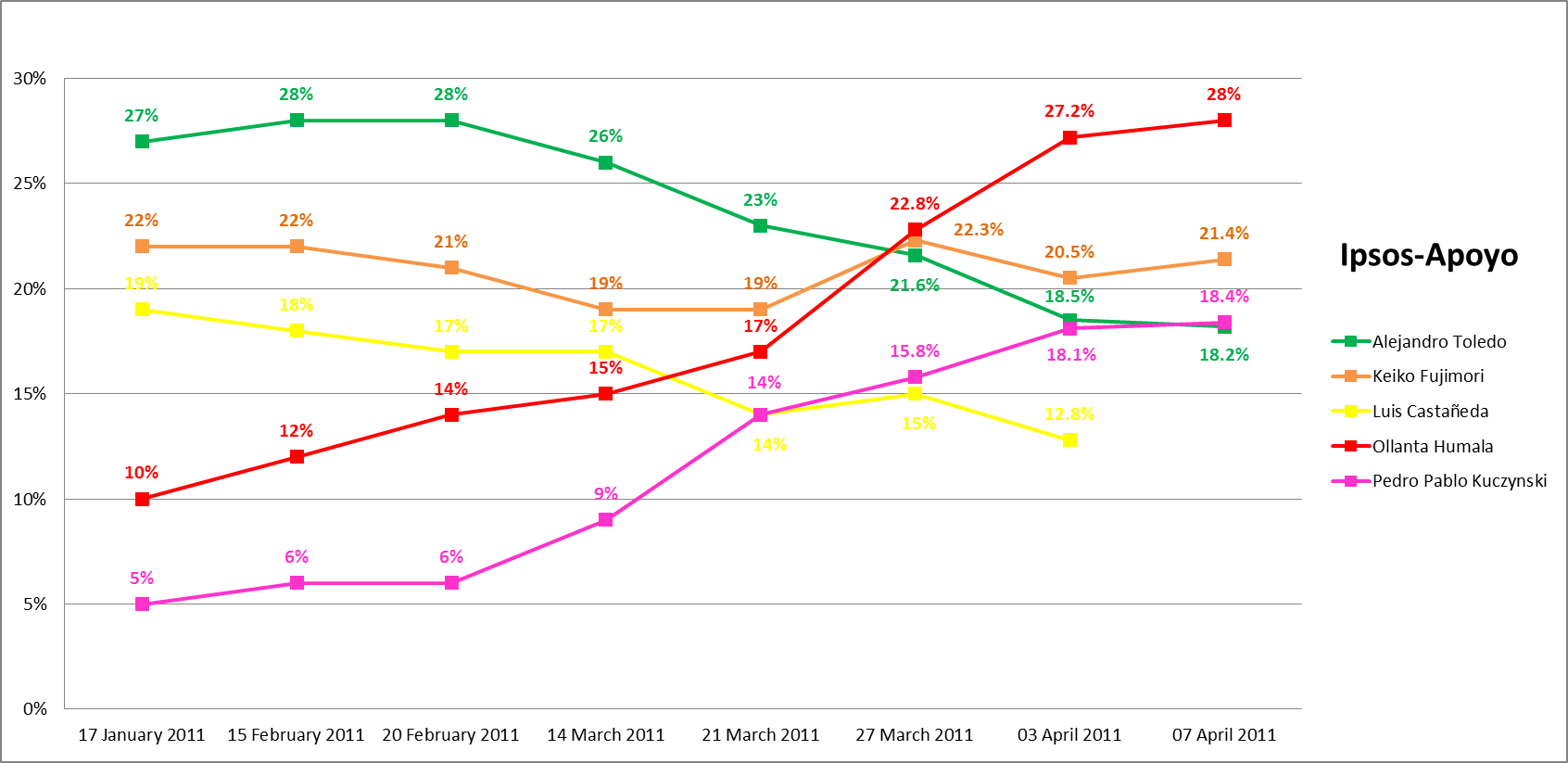 Polls, Ipsos Apoyo 2011. Peruvian General Election 2011.